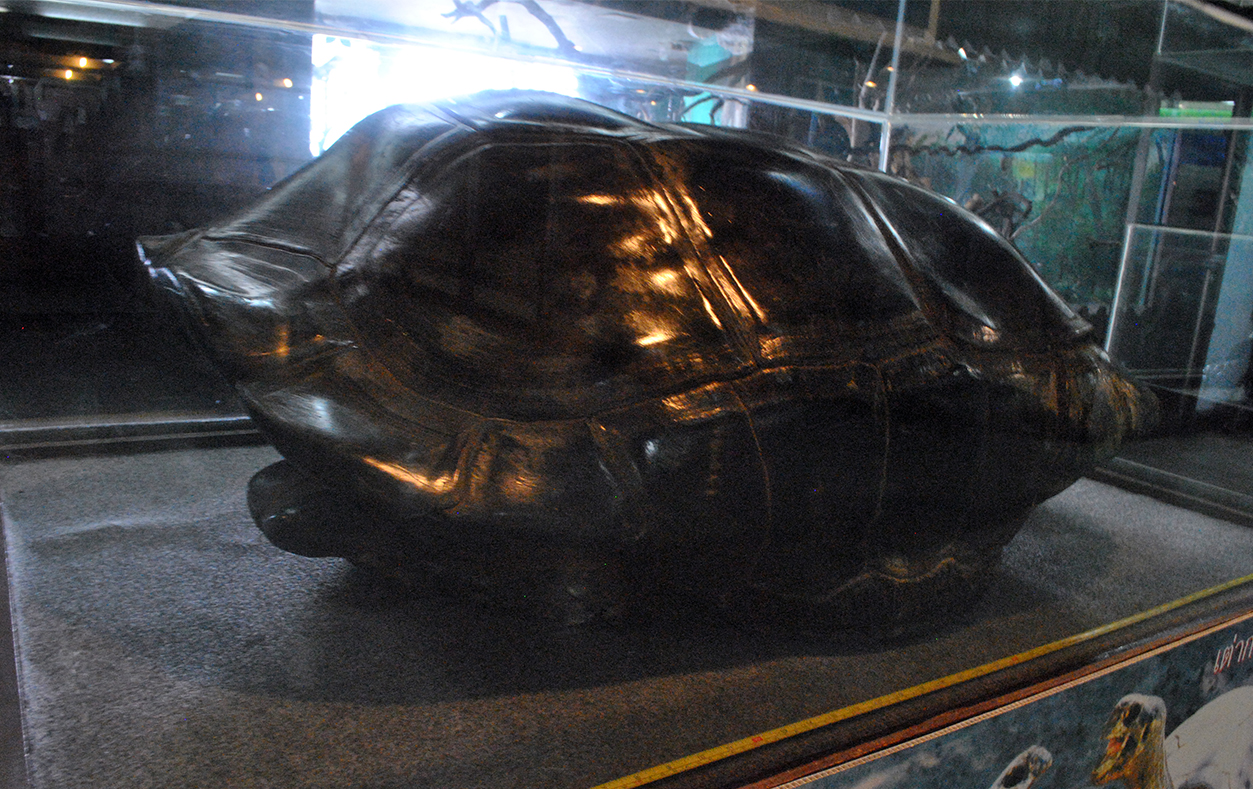 Galápagos tortoise shell in Pata Zoo